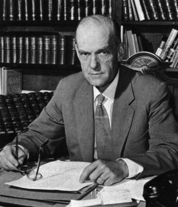 Photograph of the Finnish encyclopædist L. Arvi P. Poijärvi (1900–1986).